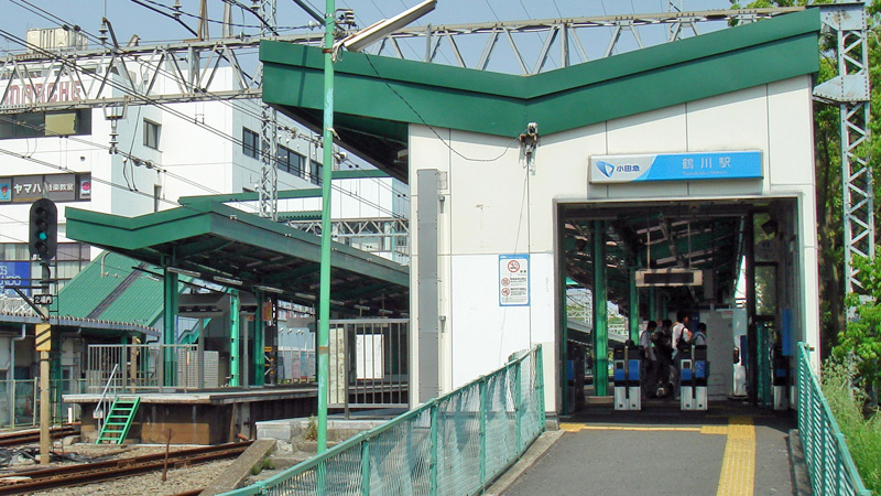 South Exit of Tsurukawa Station, Odakyu Line